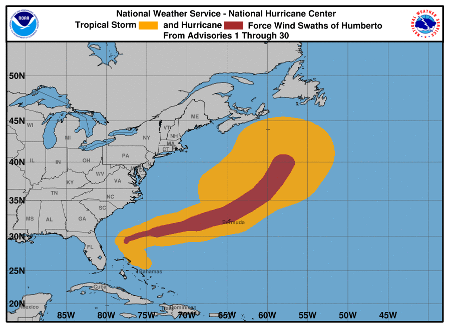 This graphic shows how the size of the storm has changed, and the areas potentially affected so far by sustained winds of tropical storm force (in orange) and hurricane force (in red). The display is based on the wind radii contained in the set of Forecast/Advisories indicated at the top of the figure. Users are reminded that the Forecast/Advisory wind radii represent the maximum possible extent of a given wind speed within particular quadrants around the tropical cyclone. As a result, not all locations falling within the orange or red swaths will have experienced sustained tropical storm or hurricane force winds, respectively.